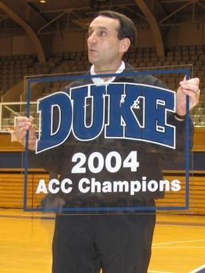 Coach K holding ACC Championship Award